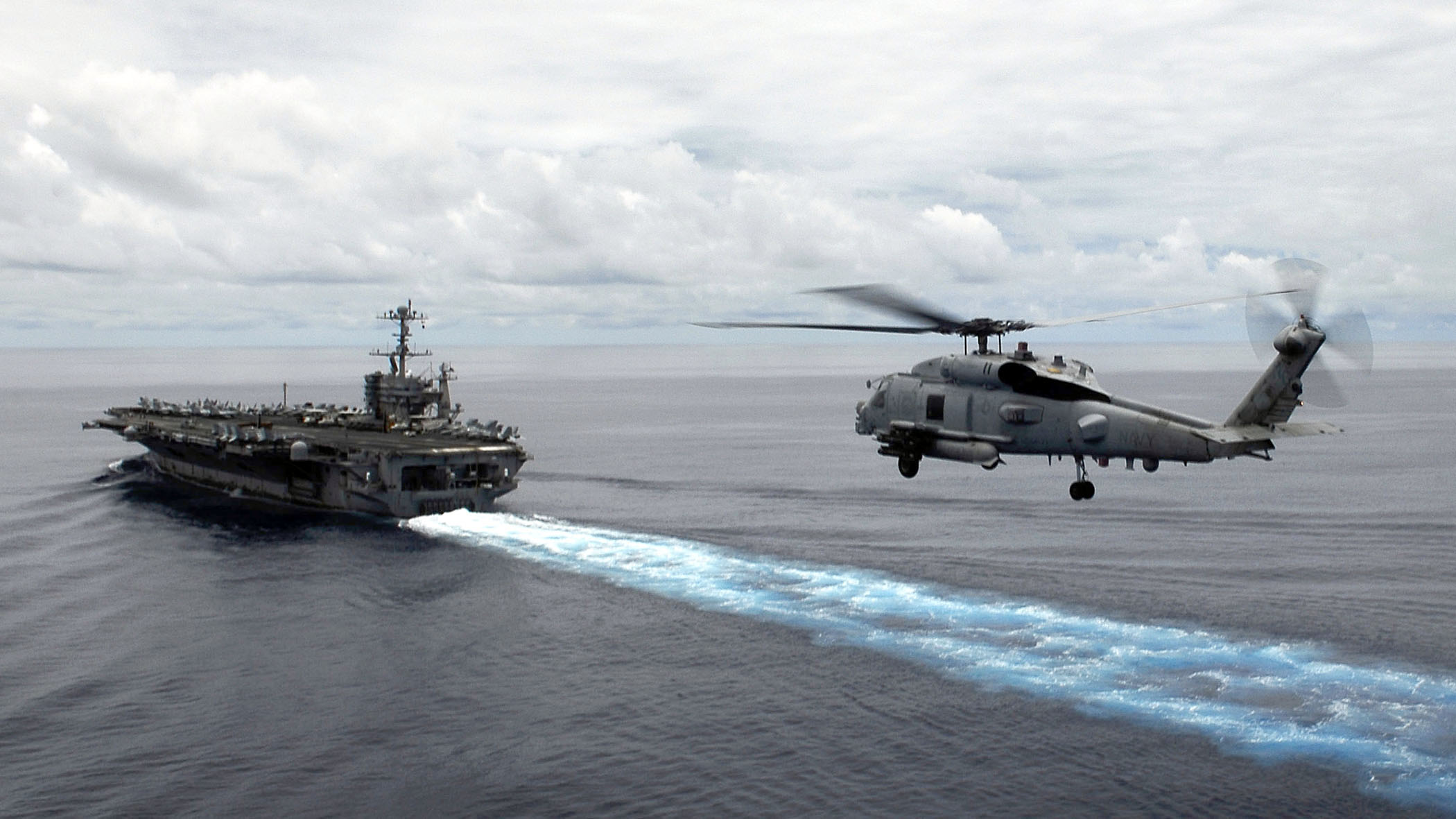 PACIFIC OCEAN (May 26, 2009) An MH-60R Sea Hawk from the "Raptors" of Helicopter Maritime Strike Squadron (HSM) 71 performs a controlled carrier approach towards the Nimitz-class aircraft carrier USS John C. Stennis (CVN 74) during flight operations. Stennis and Carrier Air Wing (CVW) 9 are on a scheduled six-month deployment to the western Pacific Ocean. (U.S. Navy photo by Mass Communication Specialist 3rd Class Josue L. Escobosa/Released)